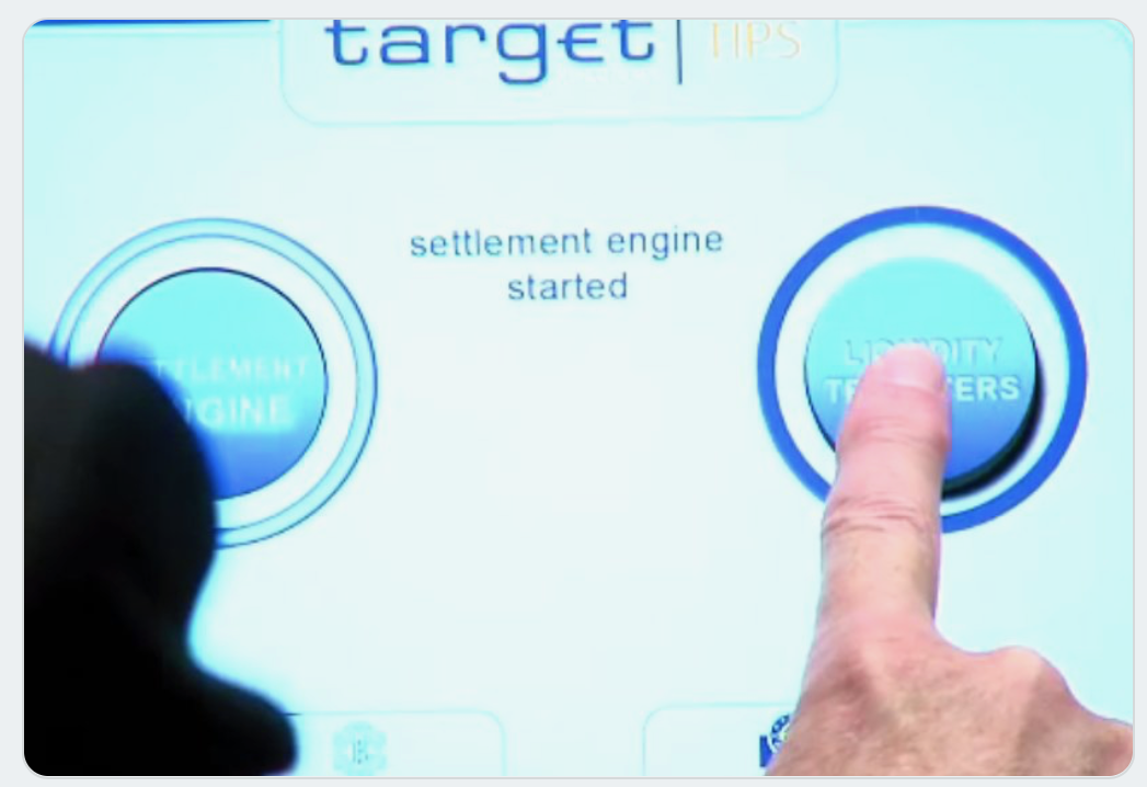 Picture of TIPS launch event